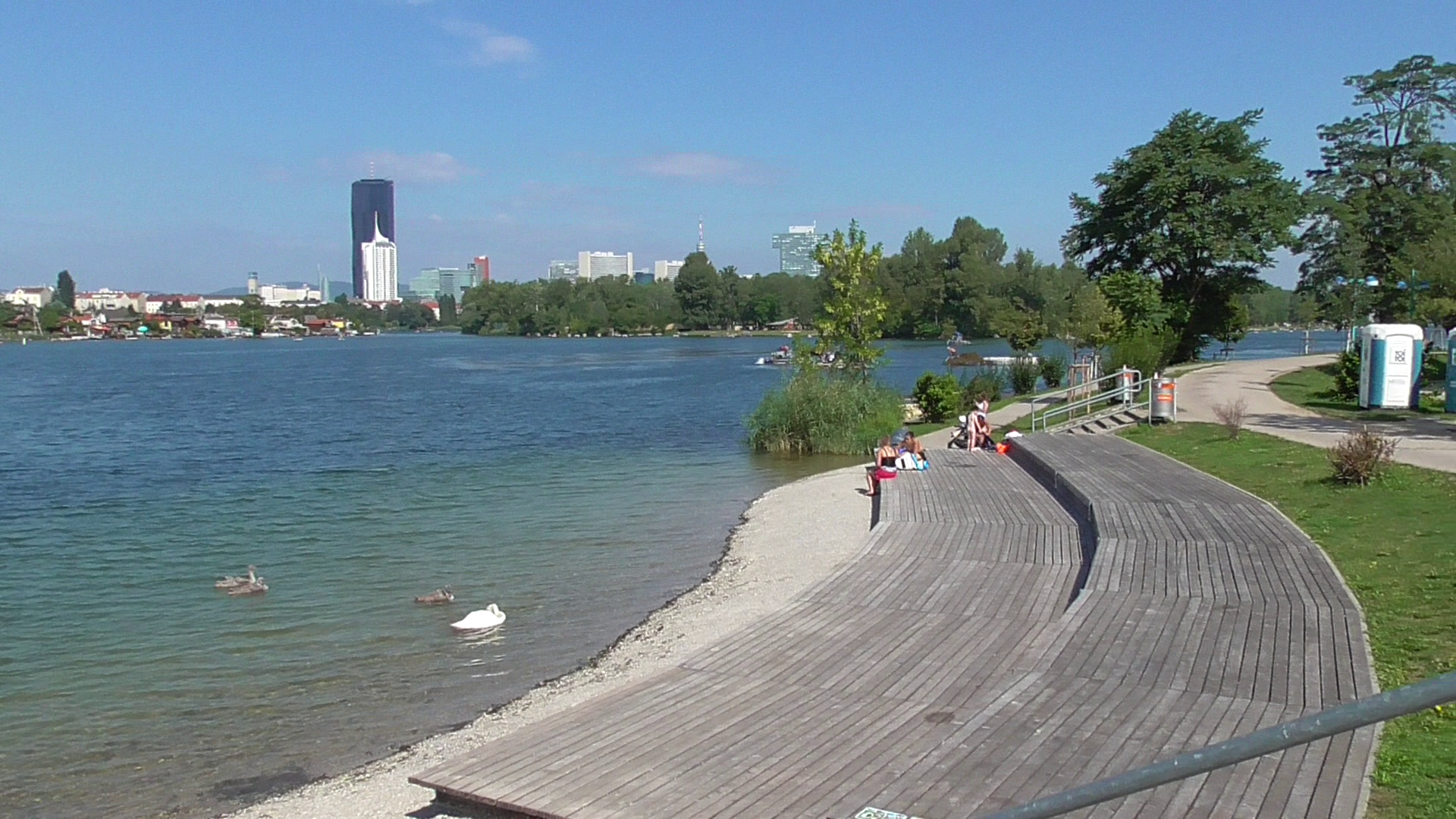 Vienna, southeast end of the Alte Donau, near to Copa Kagrana